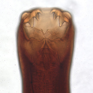 View from the dorsal side of the mouth and teeth of A. caninum